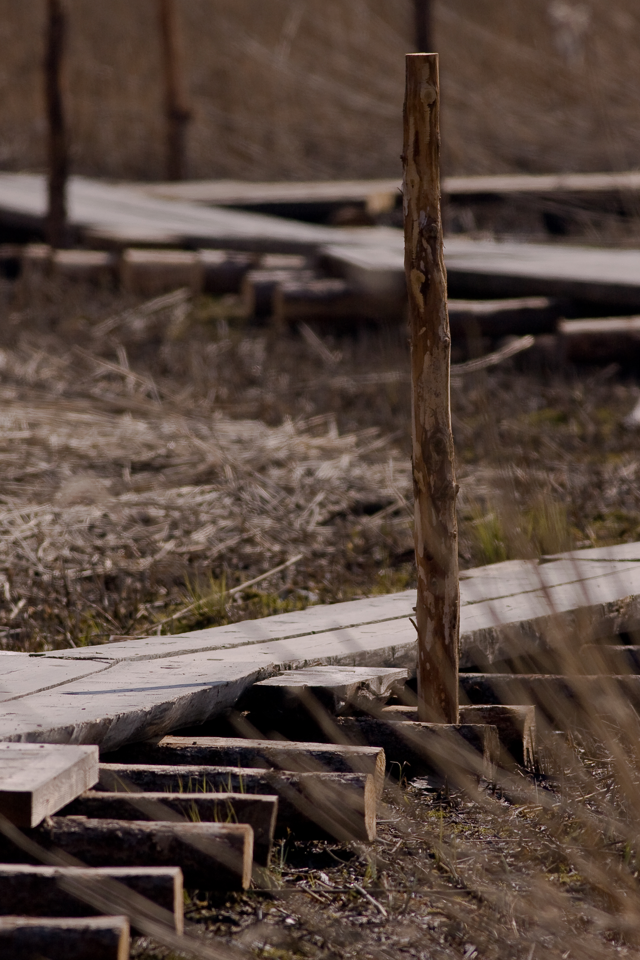 Duckboards at Vanhankaupunginlahti near downtown Helsinki, Finland. These boards permit the visitors on the area to walk between the reeds, prohibited otherwise. The area is listed in Ramsar Convention on Wetlands of International Importance, is part of European Union's Natura 2000 program and is also listed as BirdLife International's Important Bird Area.